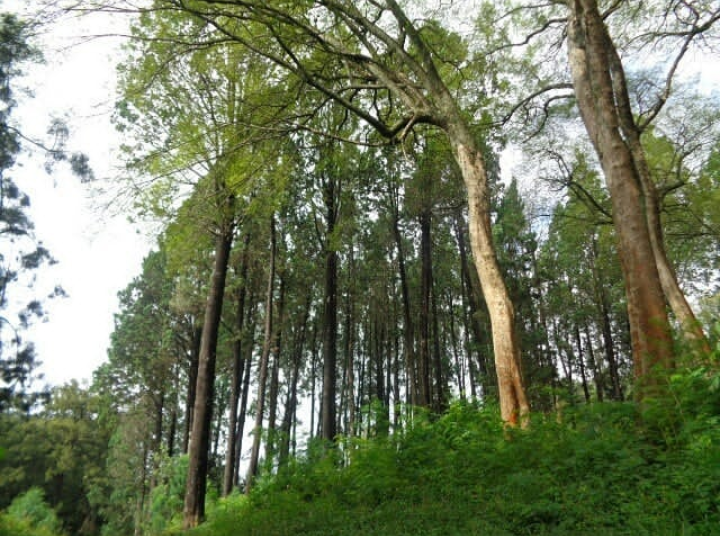 ArboretumForest ,200 hectares forest planted located in Uni_Rwanda HuyeDistrict